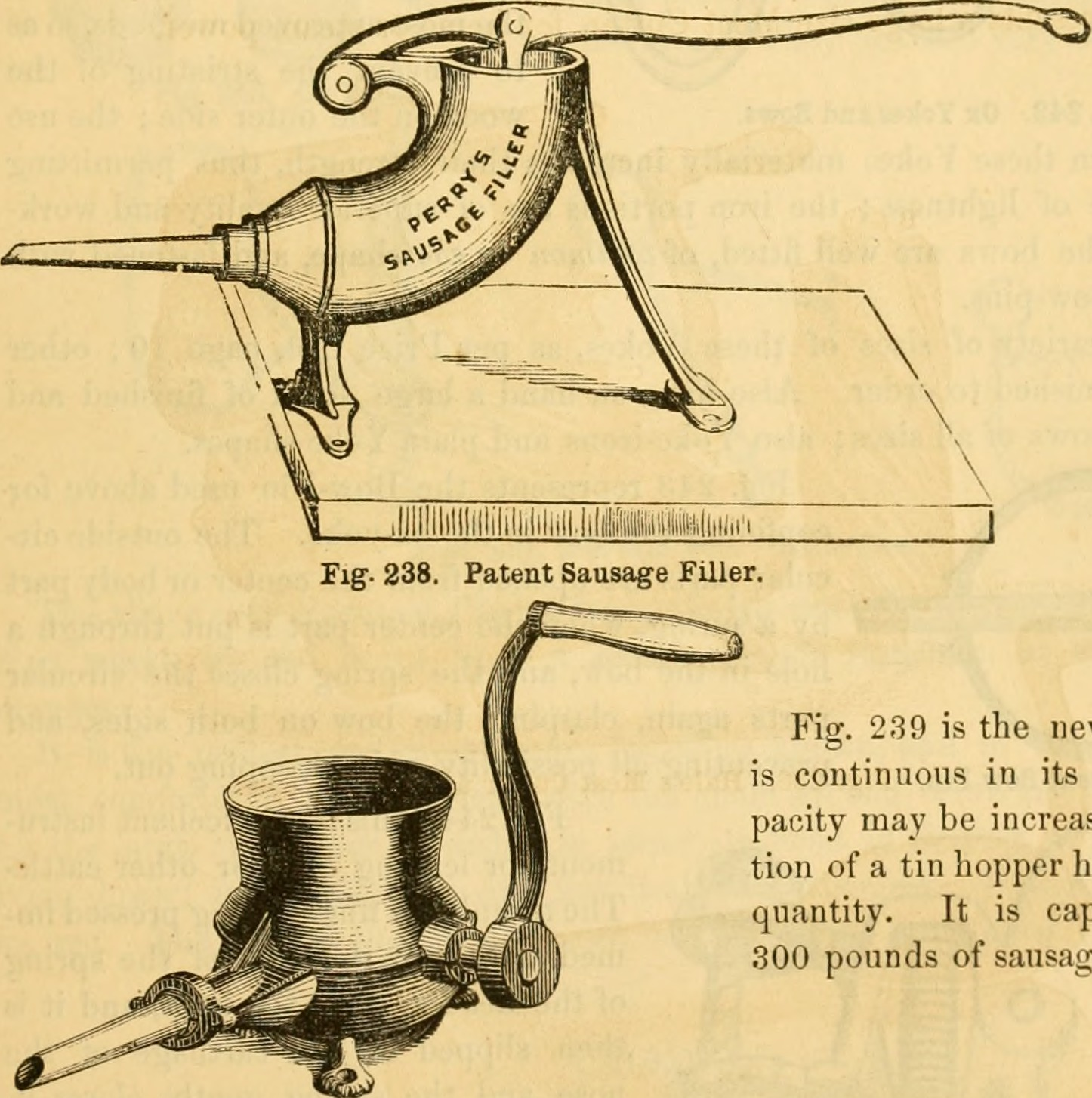 Internet Archive Book Images Follow Image from page 172 of "Charles V. Mapes'" (1861) Title: Charles V. Mapes' Identifier: charlesvmapes00mape Year: 1861 (1860s) Authors: Mapes, Charles Victor, 1836-1916. [from old catalog] Subjects: Agricultural machinery Publisher: New York, M'Crea & Miller Contributing Library: The Library of Congress Digitizing Sponsor: Sloan Foundation View Book Page: Book Viewer About This Book: Catalog Entry View All Images: All Images From Book